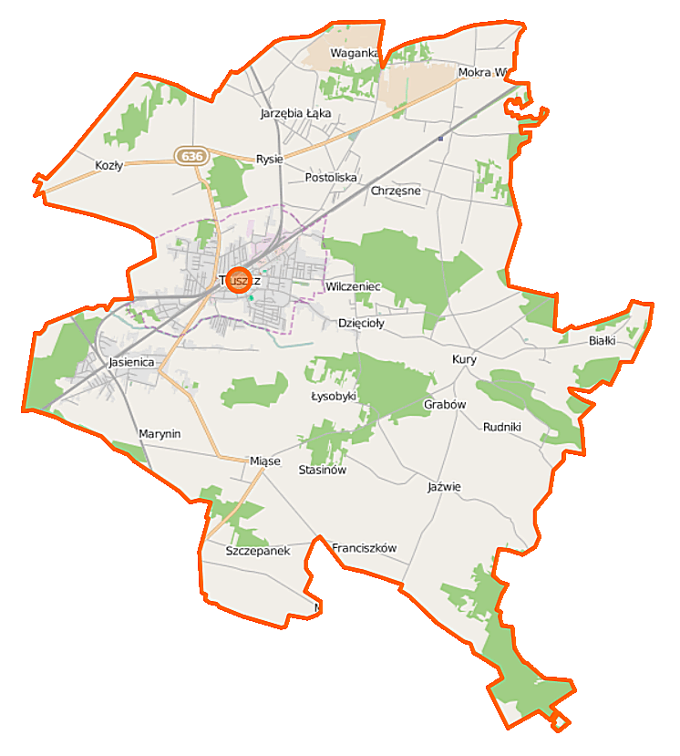 Map of Gmina Tłuszcz, Poland This map of Tłuszcz (gmina) was created from OpenStreetMap project data, collected by the community. This map may be incomplete, and may contain errors. Don't rely solely on it for navigation. Border coordinates52.481321.3646←↕→21.569352.3423